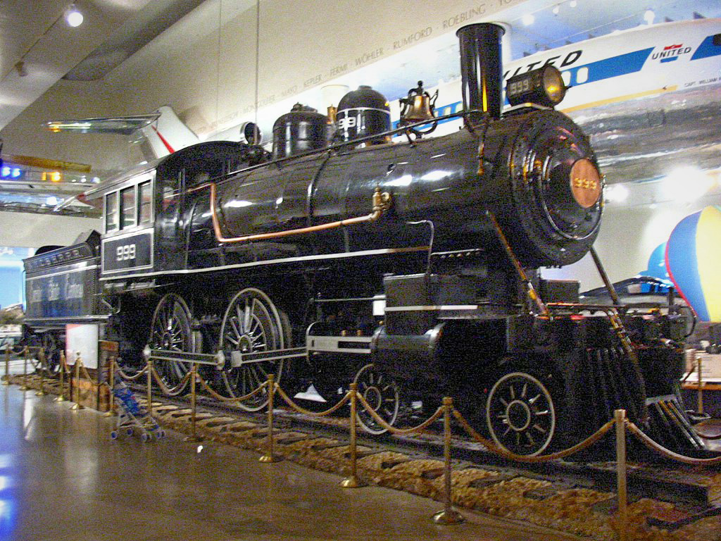 Empire State Express locomotive number 999 preserved at the Museum of Science and Industry in Chicago